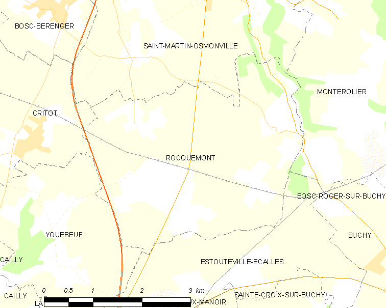 Map of French municipality Rocquemont